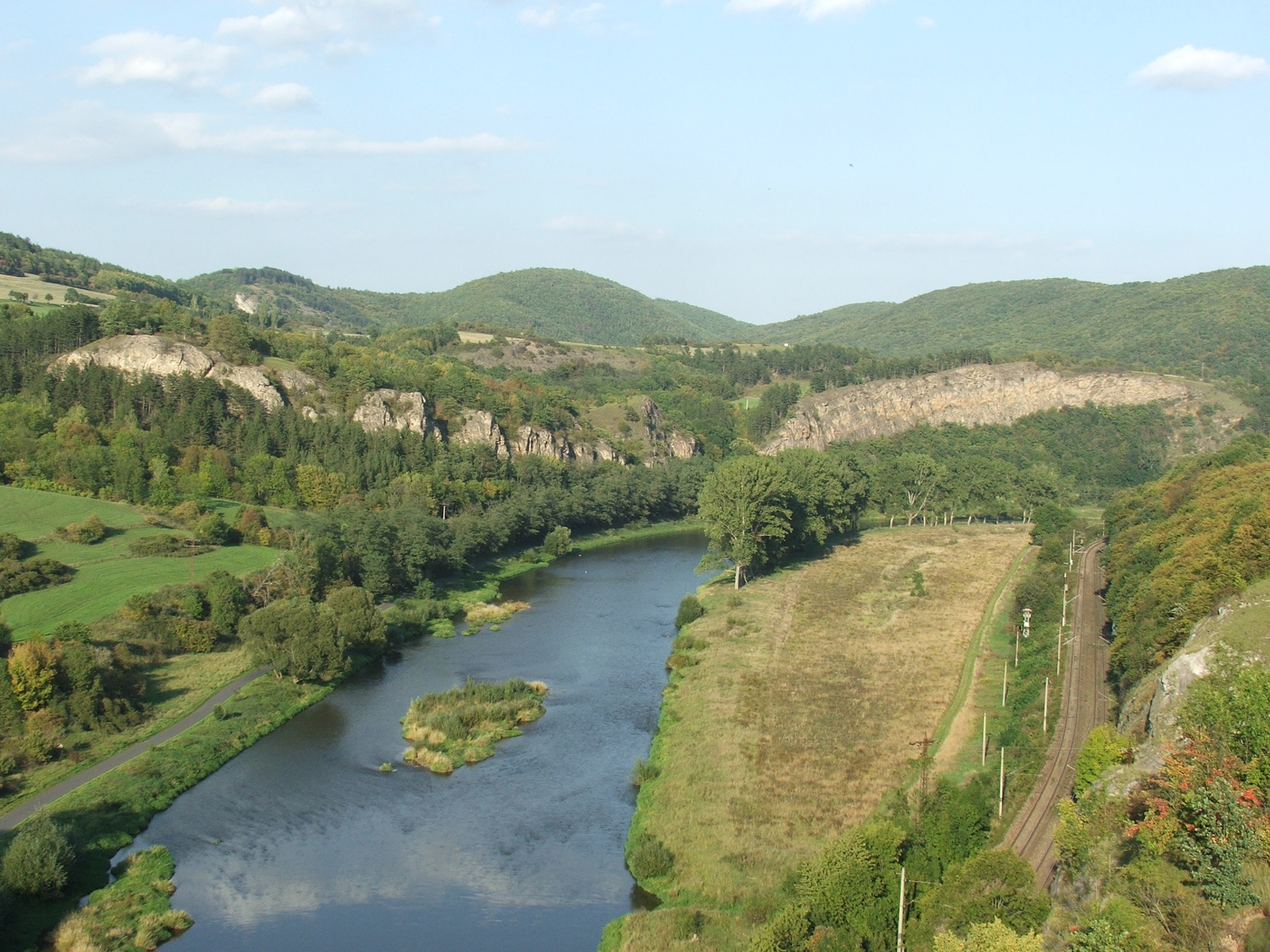 View on river Berounka, Czech Republic from Tetín ruins.